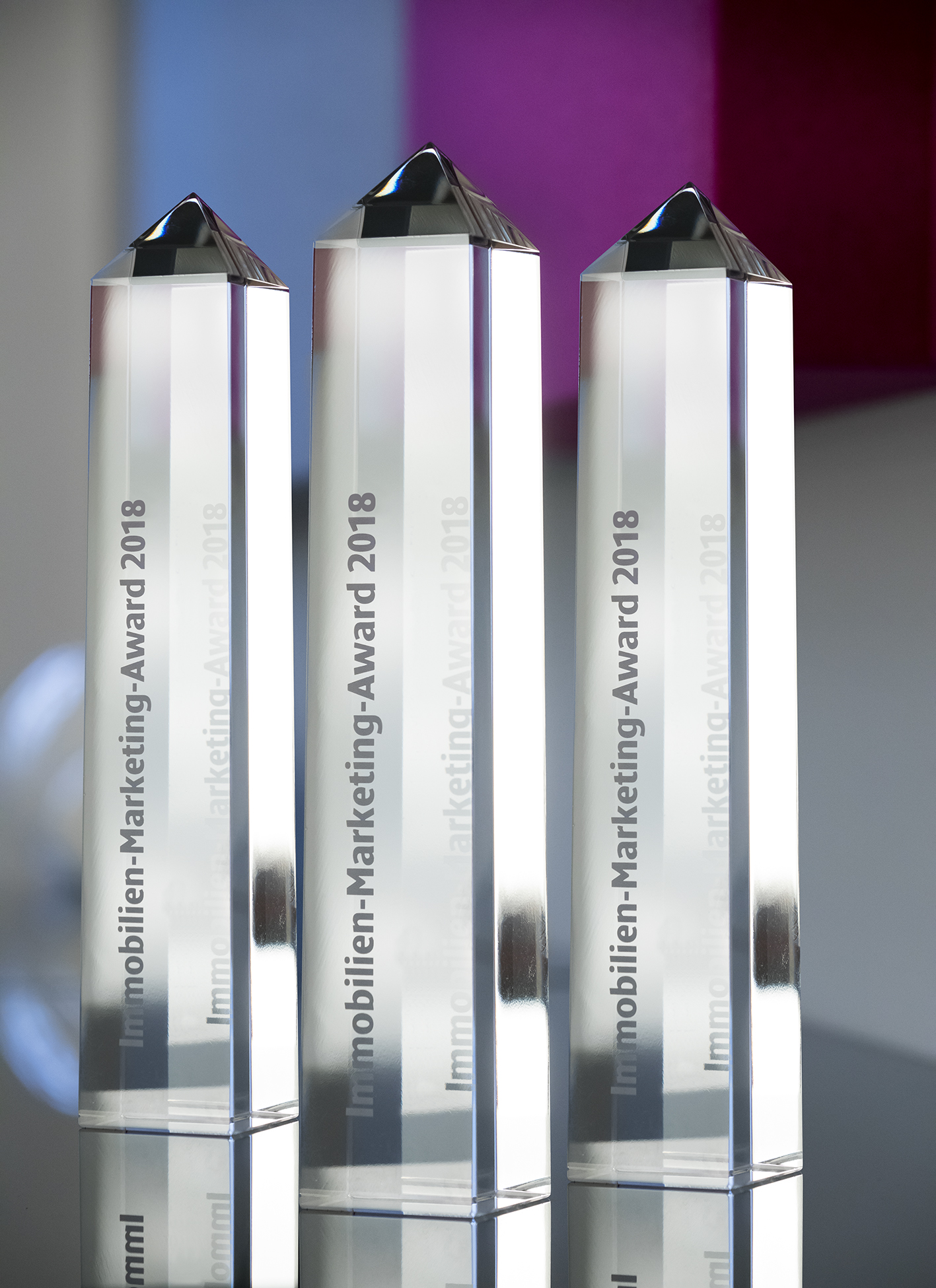 Duo Immobilienpreis